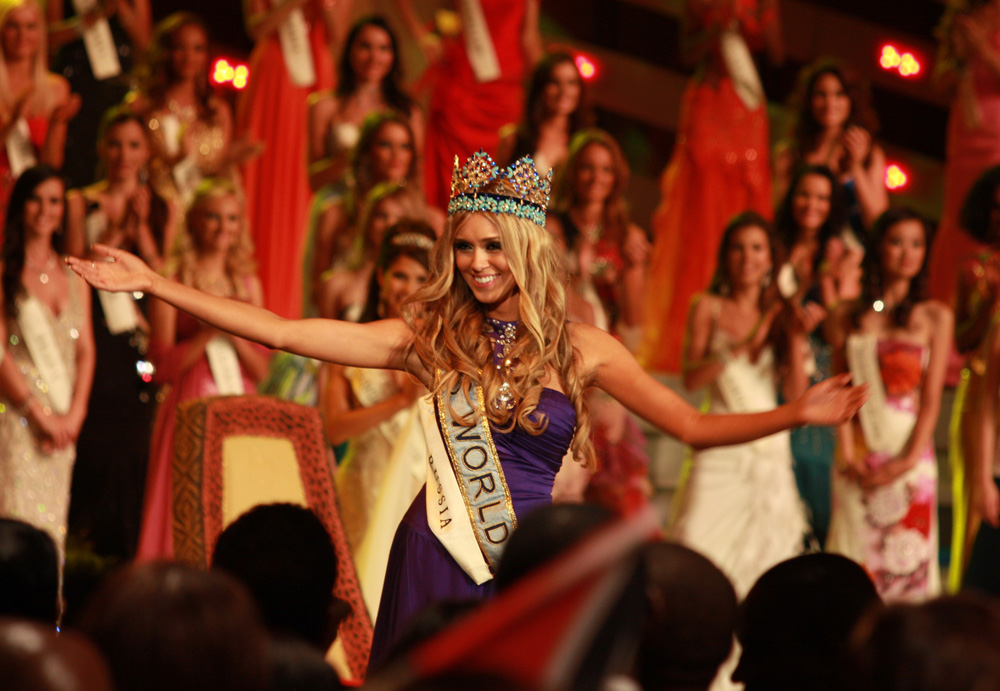 Miss World 2008 winner Miss Russia Ksenia Sukhinova